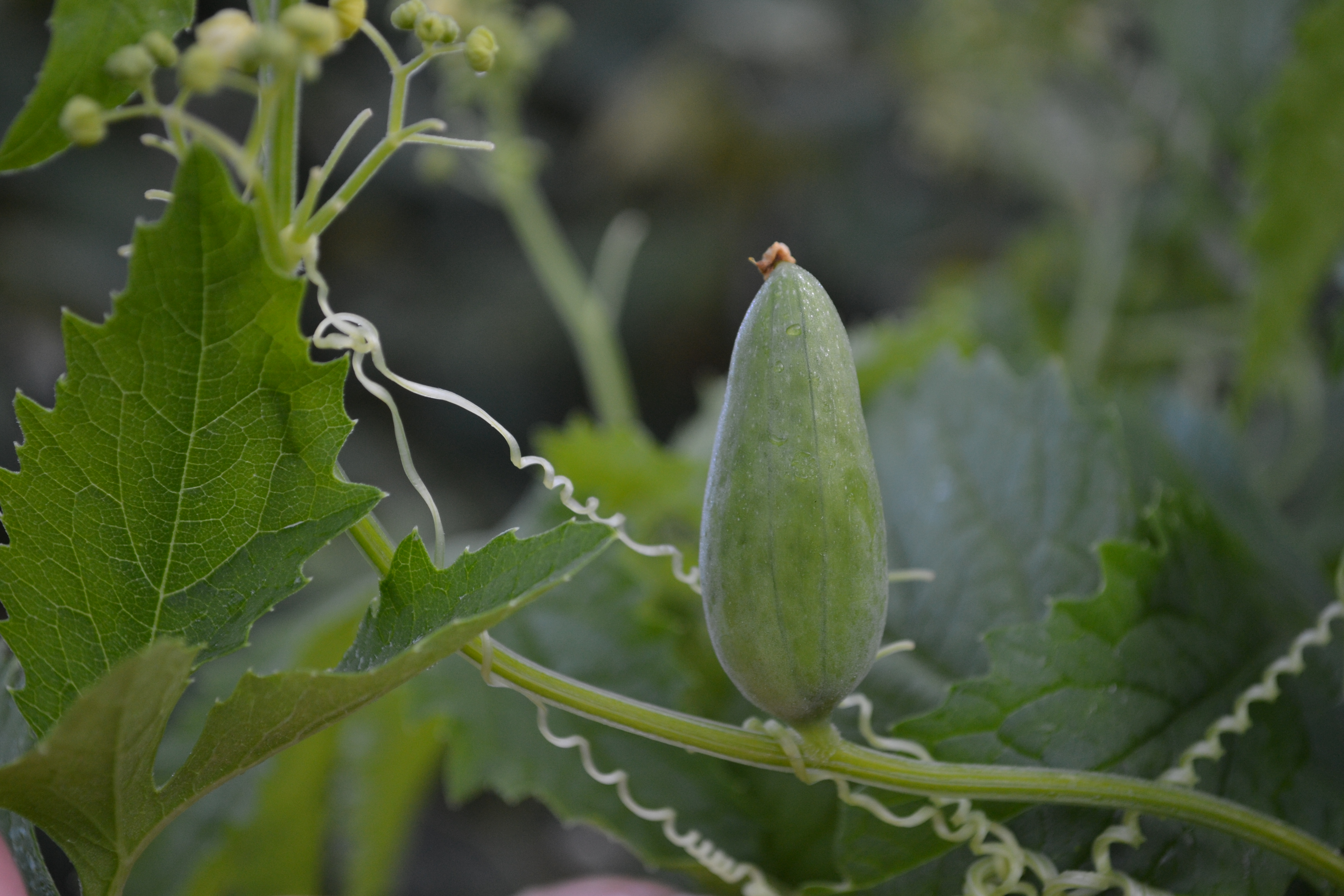 Cyclanthera pedata (small fruit) in Lučenec (Slovakia)